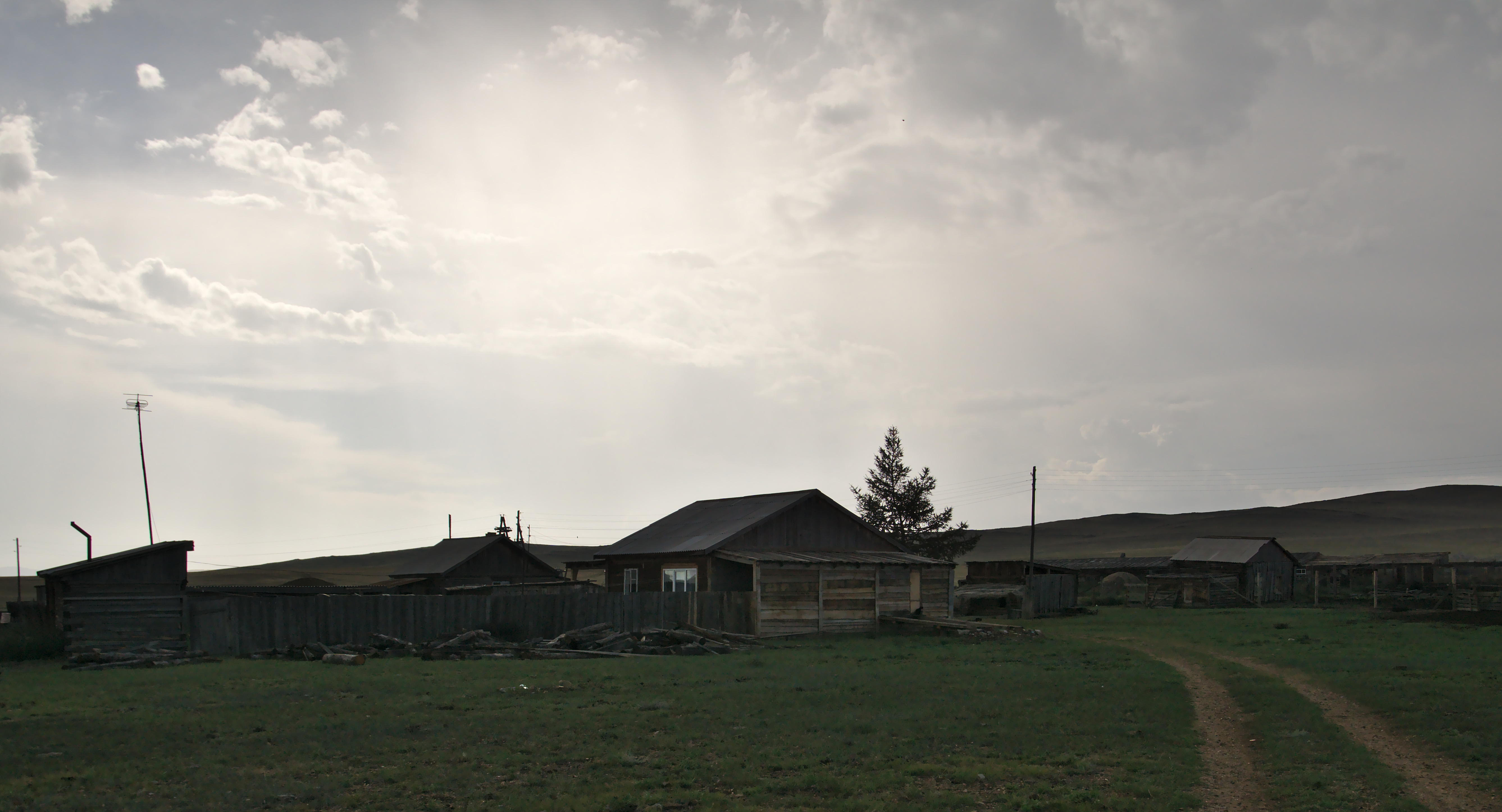 Улан-Нур (Ulan-Nur) in Olkhonsky district, Russia